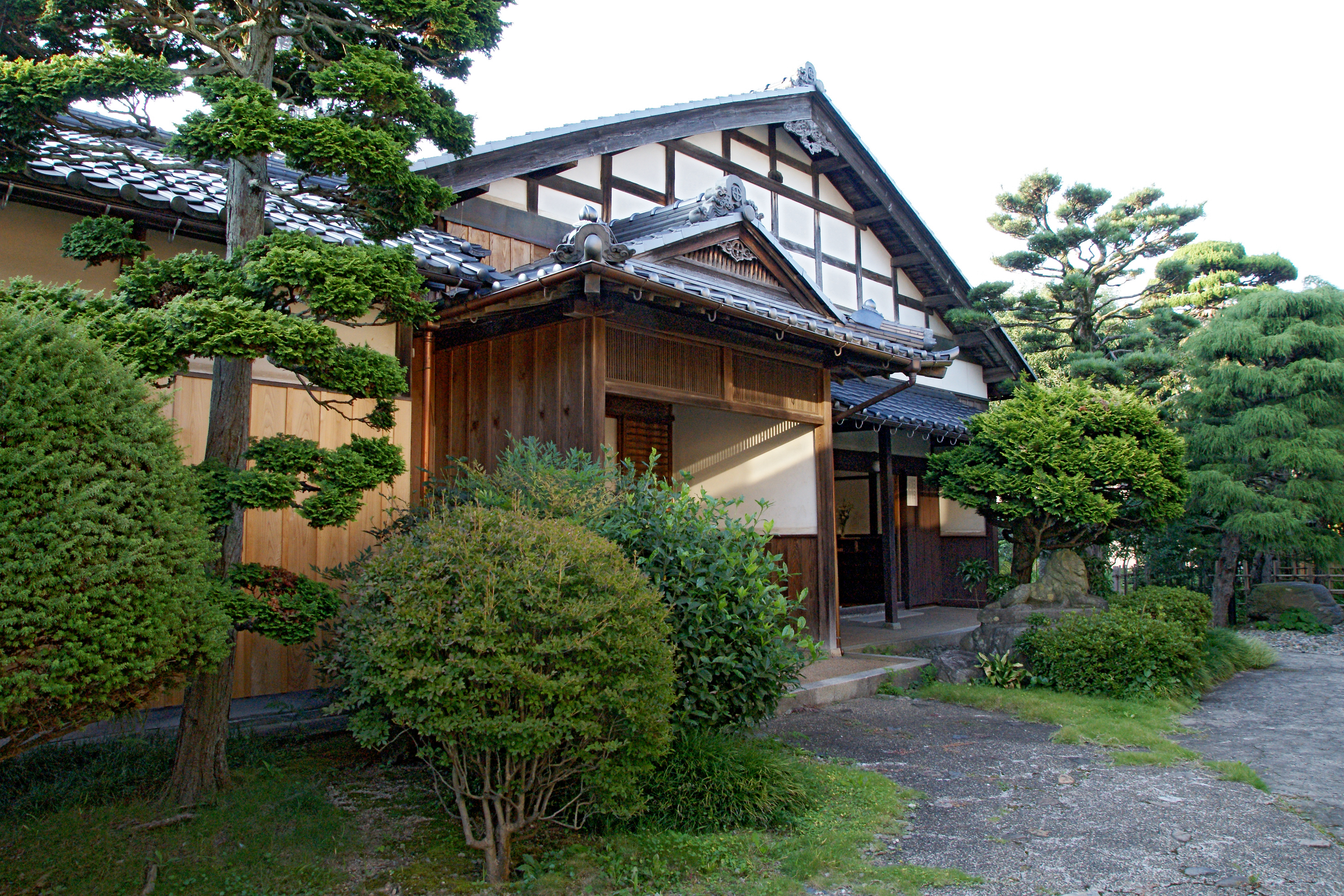 Tomiko Yamakawa Memorial Museum, Obama, Fukui prefecture, Japan